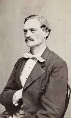 Emanuel Winge (1827-1894), Norwegian professor of medicine, pathologist